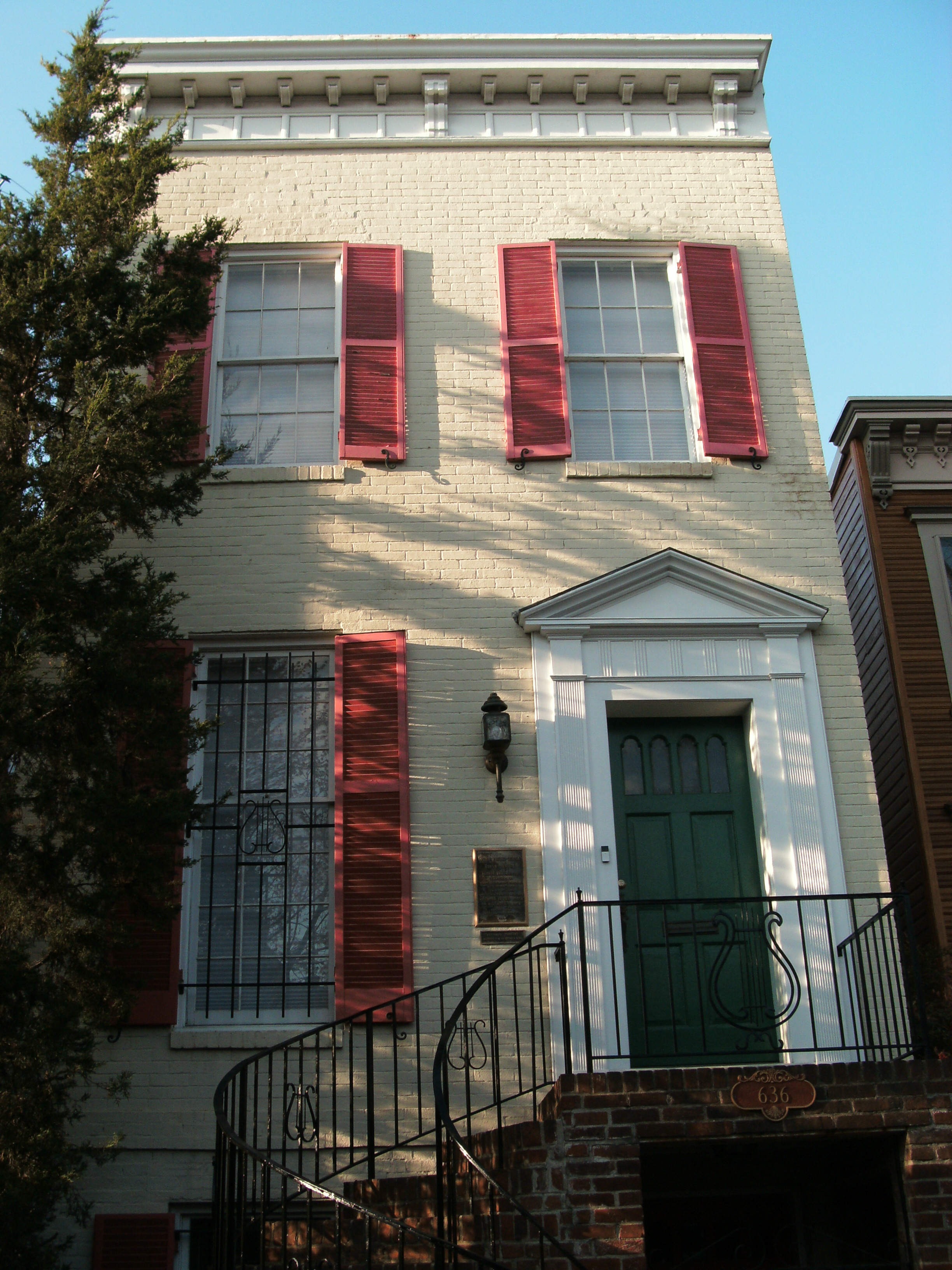 Image I took for Wikipedia